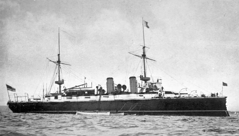 British cruiser HMS Orlando of 1886.